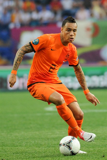 UEFA Euro 2012 match between Netherlands and Denmark that took place in Kharkiv. Final result was 0:1 (Krohn-Delhi)